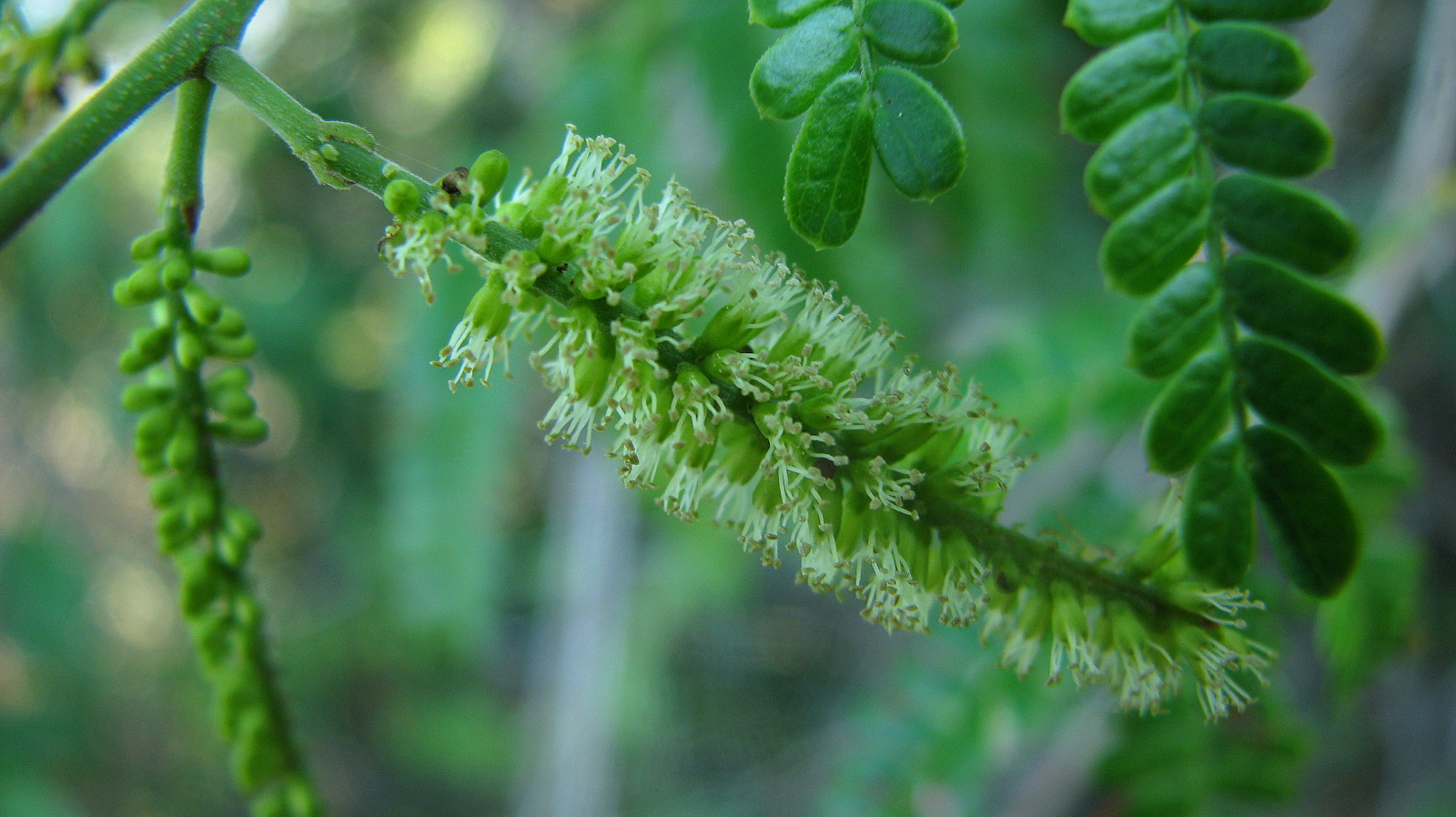 Inflorescence of Piptadenia sp., Bahia, Brazil